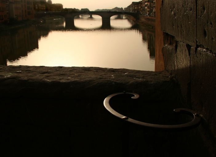 Bridges